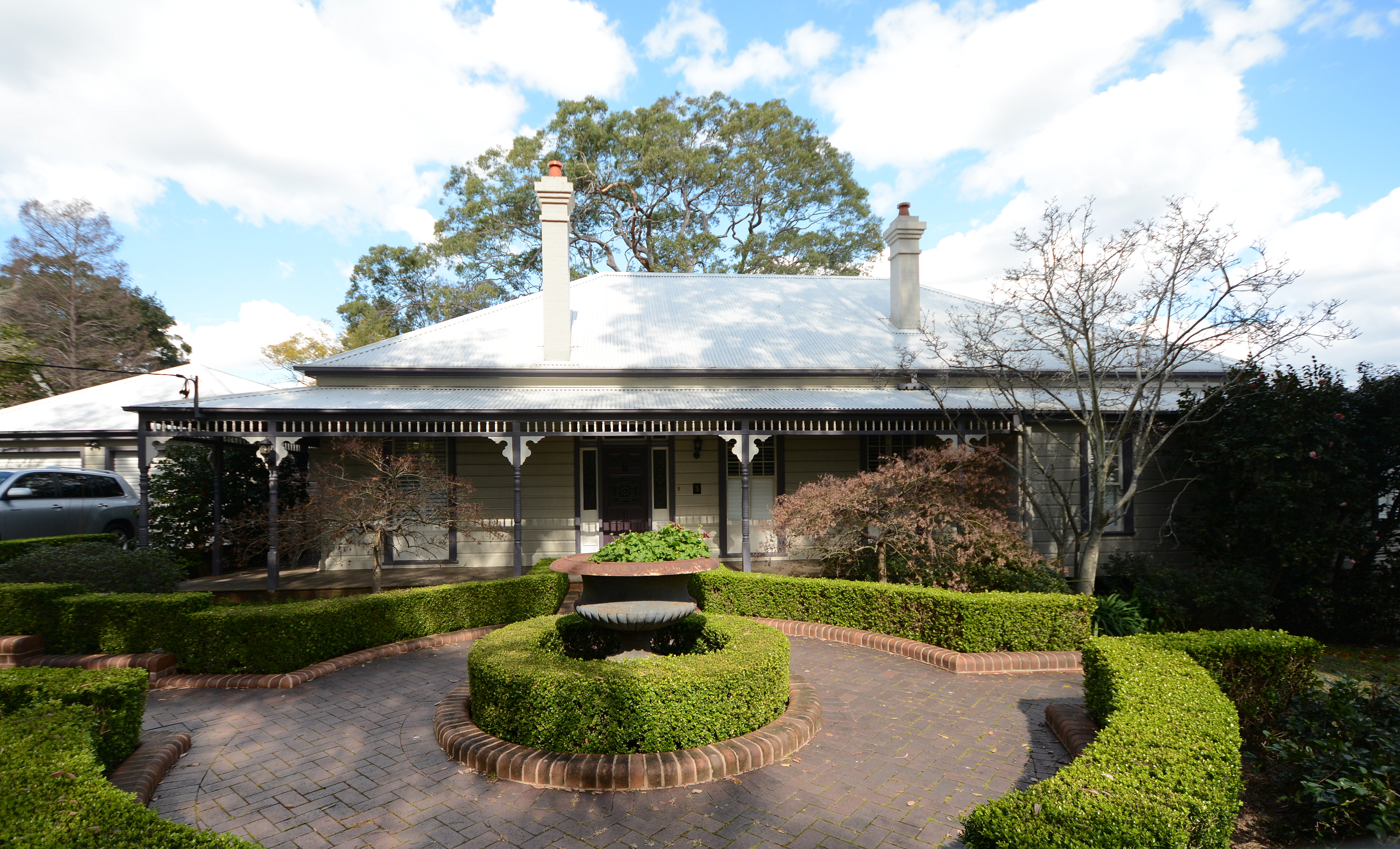 Federation house, Beecroft, Sydney